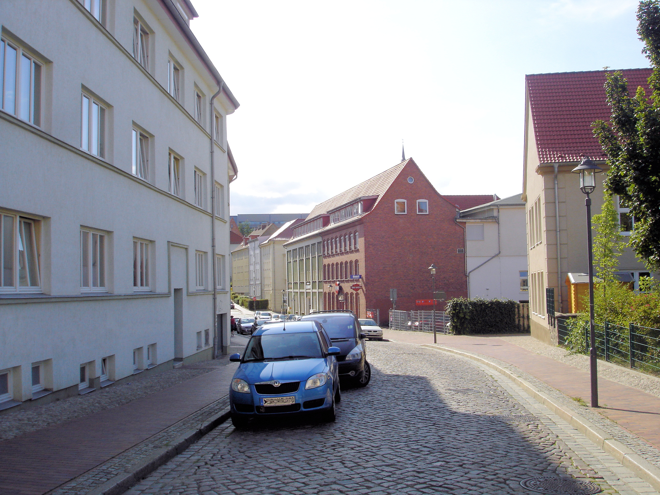 Street in the historic city of Rostock